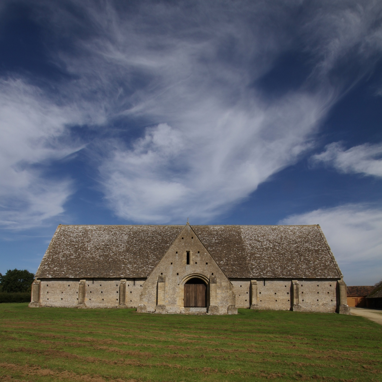 Mediæval barn at Great Coxwell, Oxfordshire (formerly Berkshire), seen from west-southwest